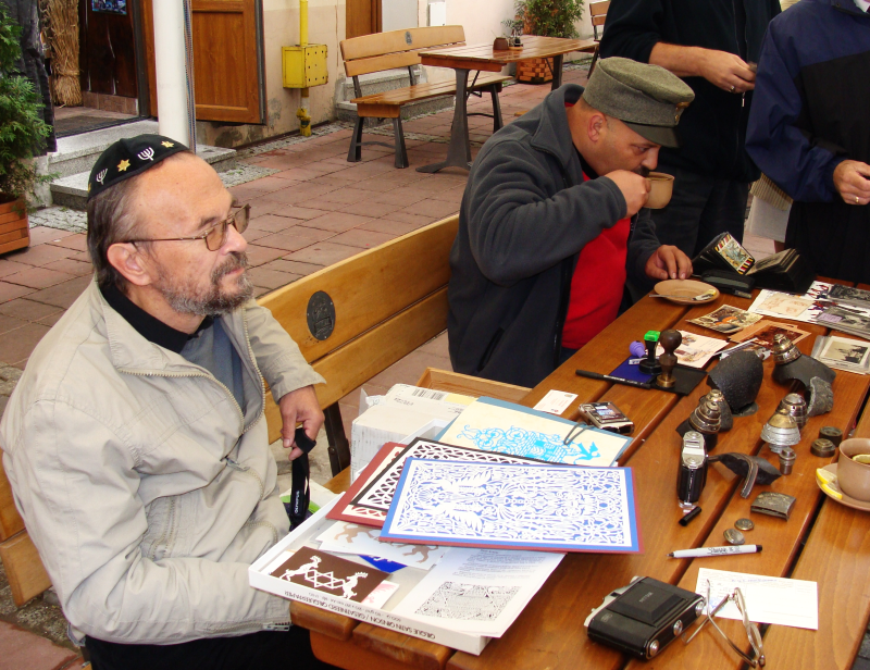 Sanok